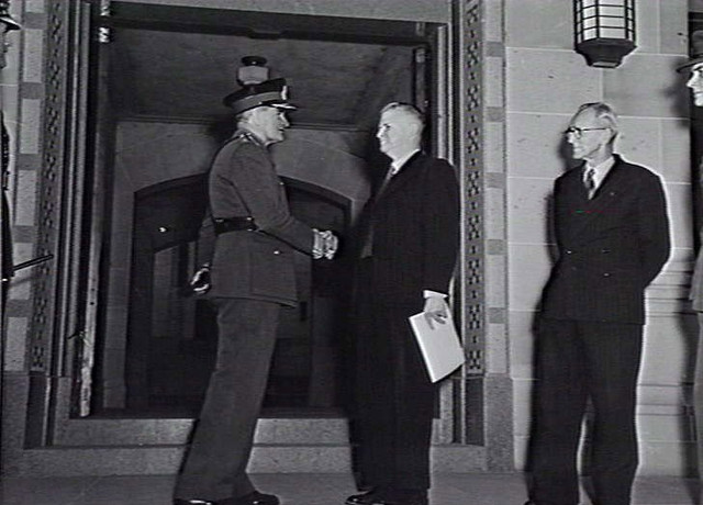 John Treloar (centre) farewelling the Governor General of Australia, Field Marshal William Slim (left), at the conclusion a visit to the Australian War Memorial. The man at the right is the Memorial's curator G.F. Nicholson.